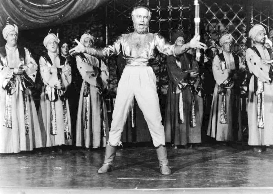 Photo of Alfred Drake in the Broadway production of Kismet.